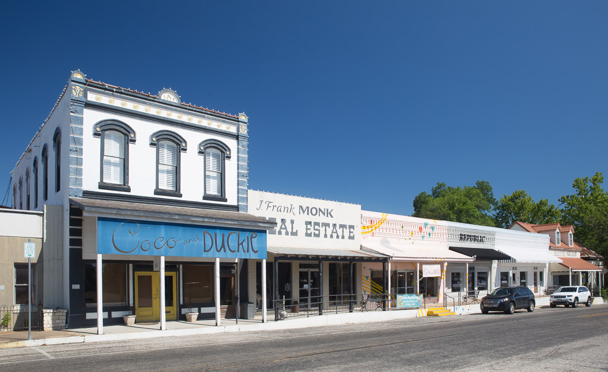 Old buildings in downtown Bellville, Texas